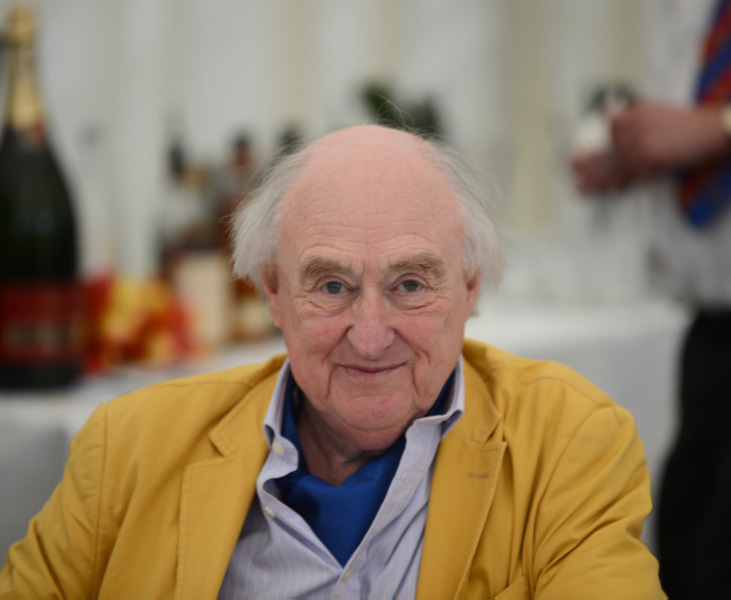 Blofeld at Odiham CC 2016